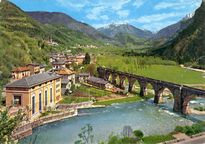 Lenna, 1950